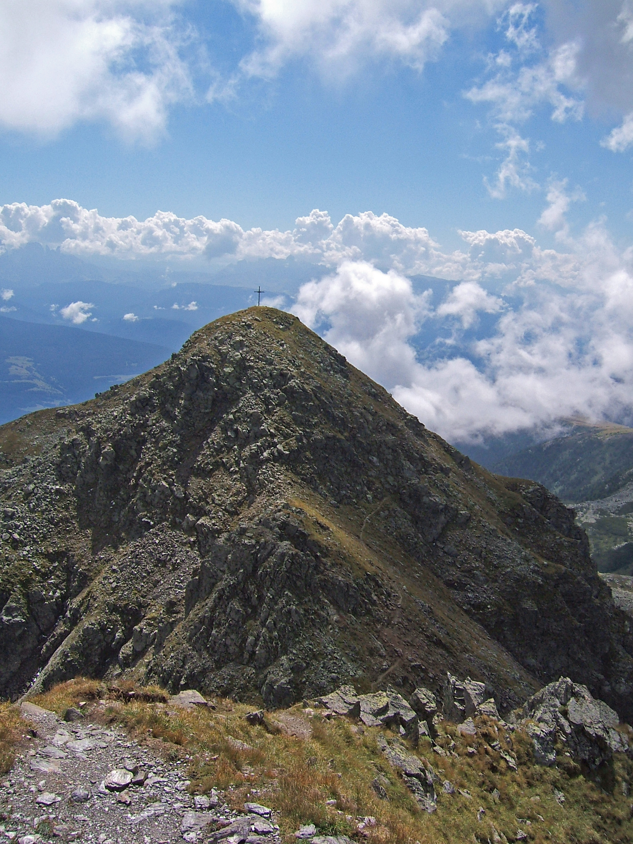 Ritzlar from Northwest, from ridge to Kassianspitze, South Tyrol